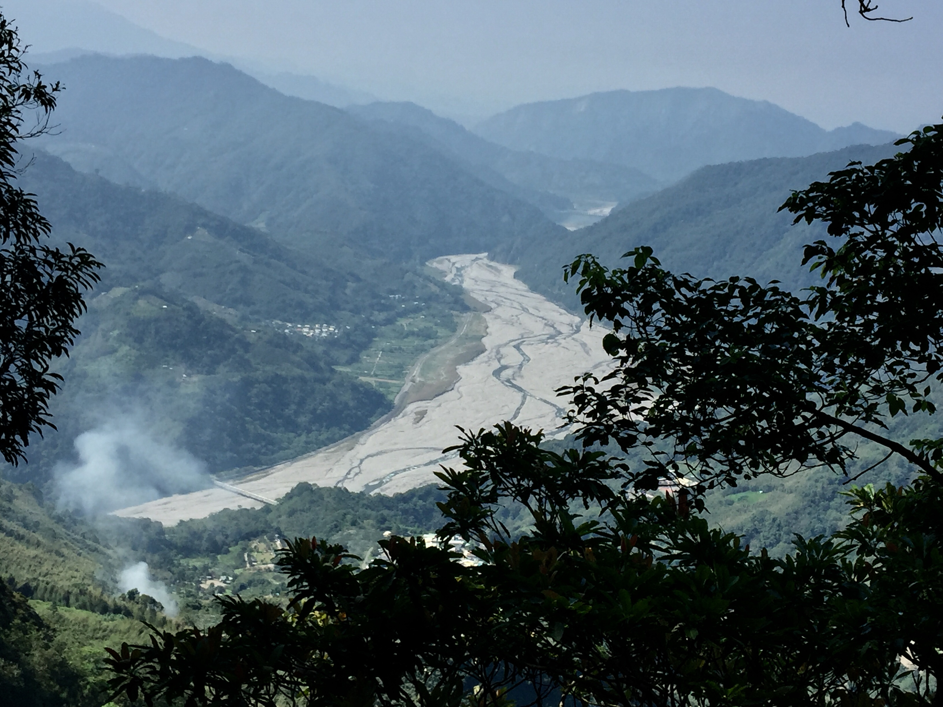 View down the valley of Daan River from Xuejian. 中文（台灣）: 從雪見展望大安溪谷。